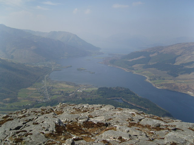 Summit of the Pap of Glencoe Picture taken from the summit looking west out of Loch Leven. Visibility wasn't the best hence the slight haze